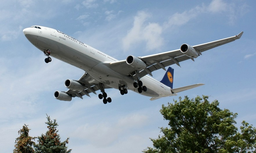 Lufthansa Airbus A 340-313X on final to runway 23 at Toronto Pearson (CYYZ)